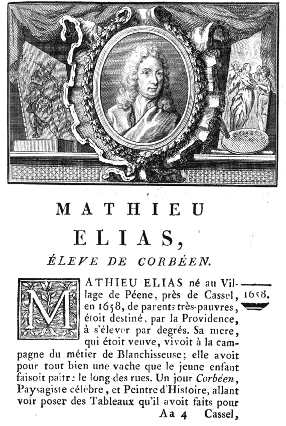 Book 3 of 4-volume painter biographies by Jean-Baptiste Descamps